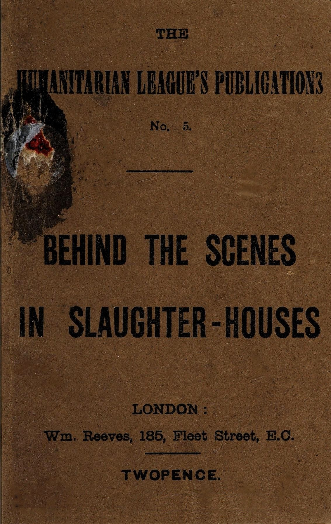 Cover page for Behind the Scenes in Slaughter-Houses.